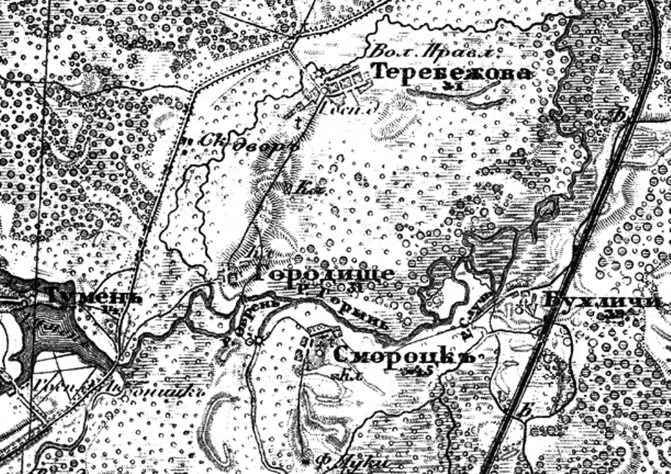 Military topographic map of the Russian